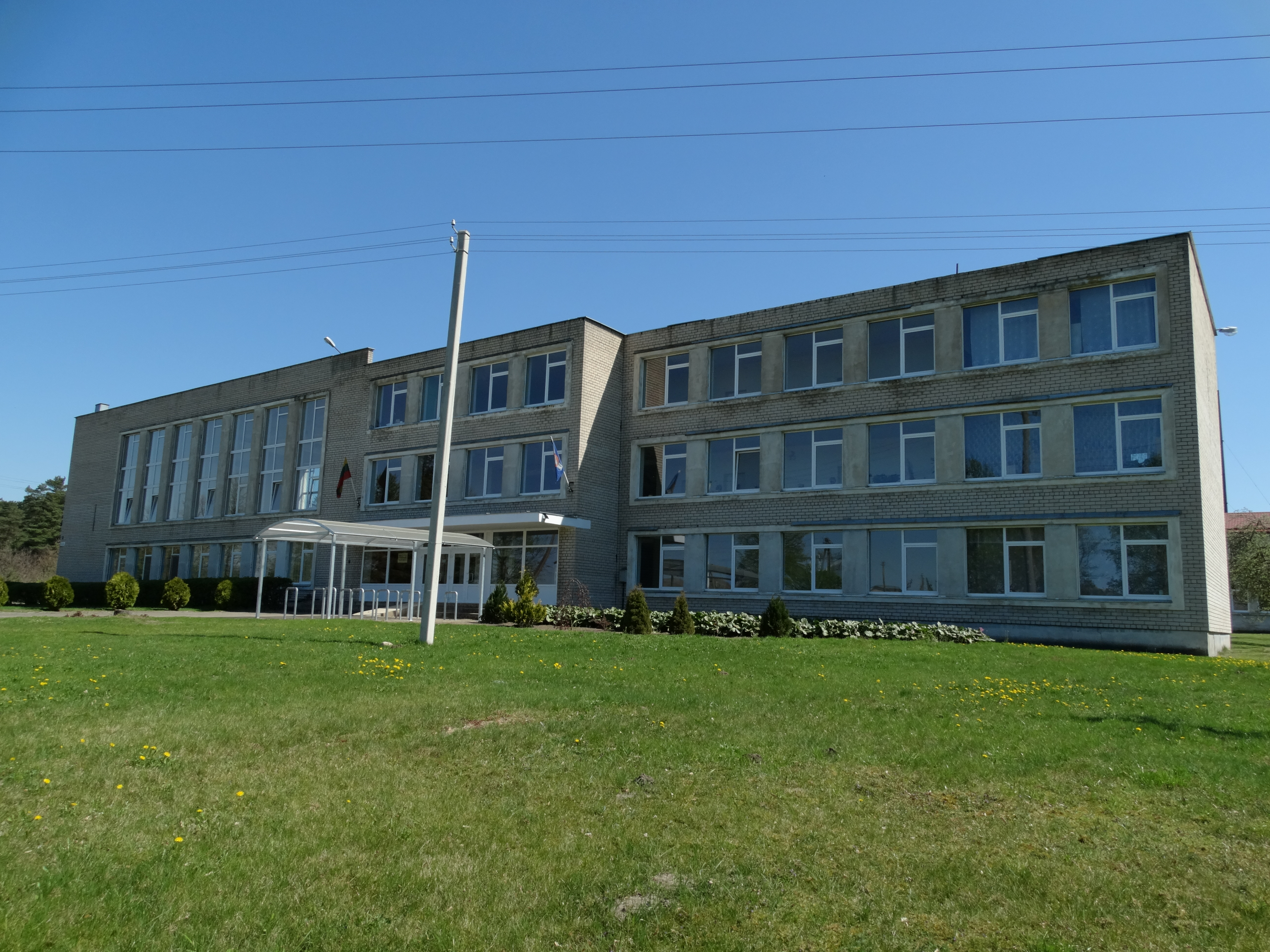 School, Vandžiogala, Lithuania